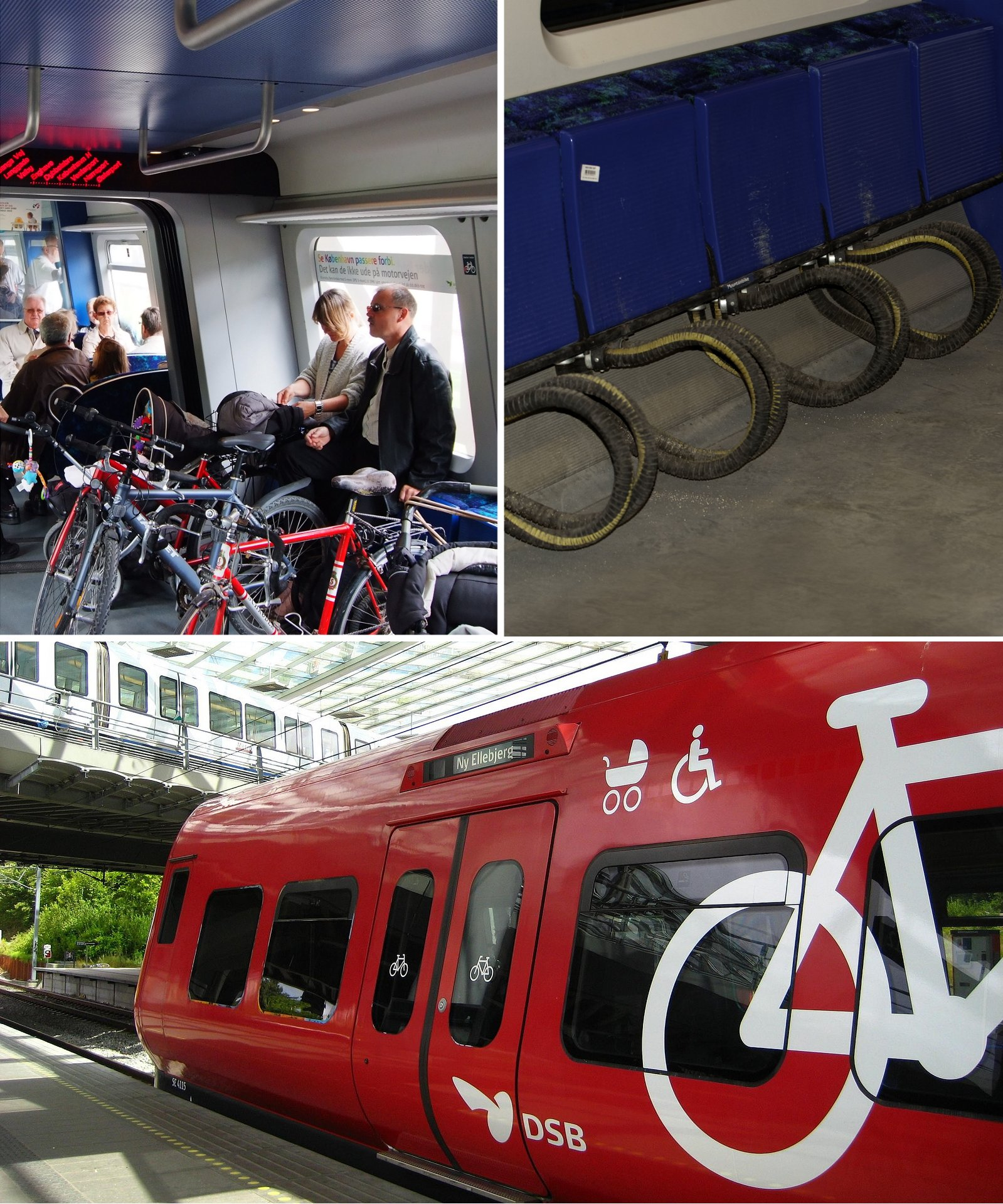 Collage of the s-train bicycle system